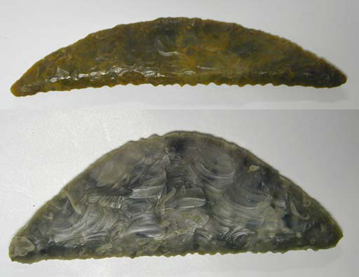 Two Late Neolithic sickles of flintstone from the Falbygden area, Västergötland, Sweden. Both belong to Falbygdens Museum in Falköping.